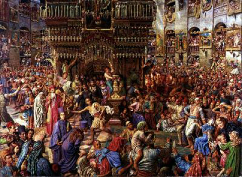 The Miracle of the Holy Fire